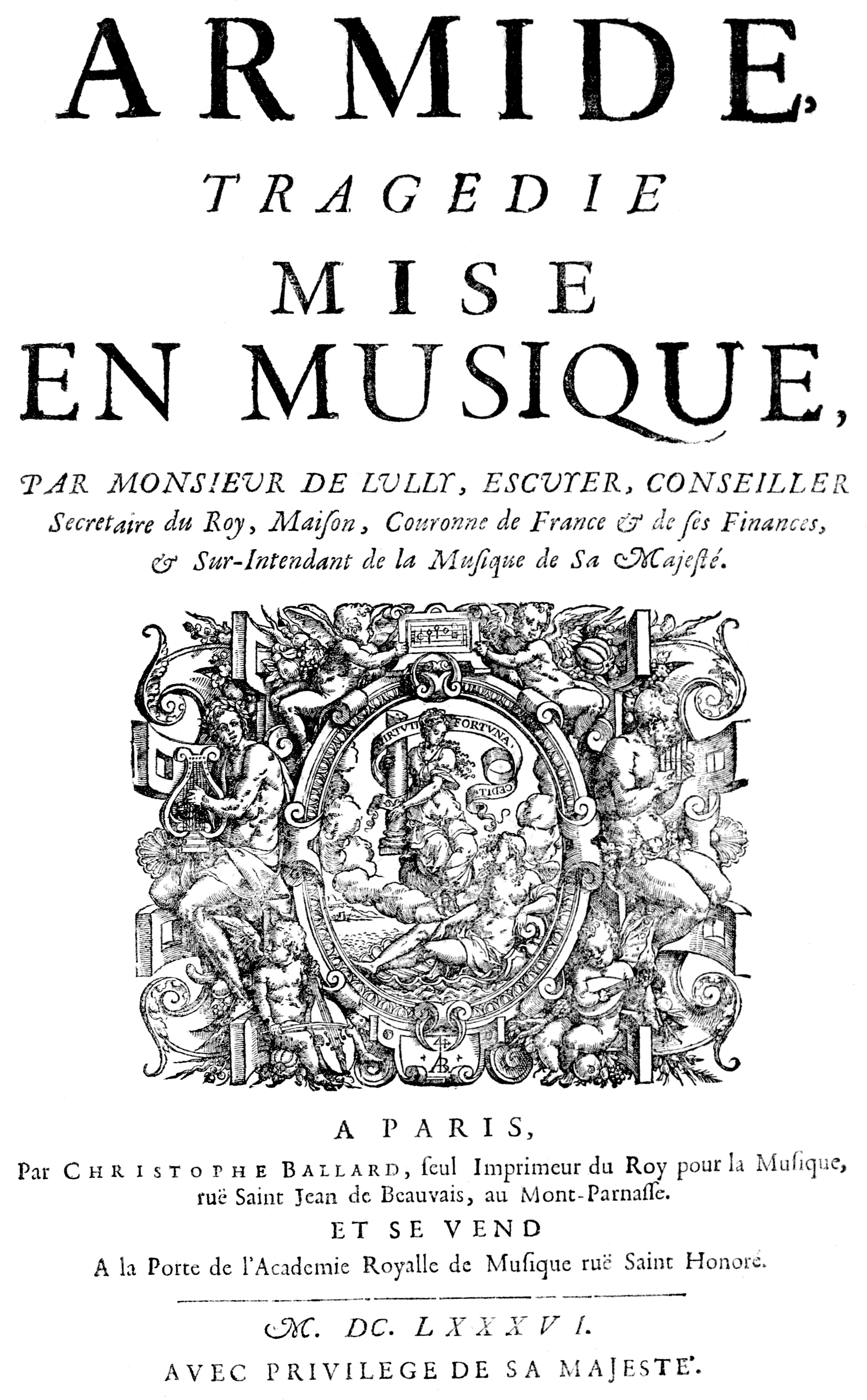 Armide cover. First edition. Jean-Baptiste Lully (1632–1687)